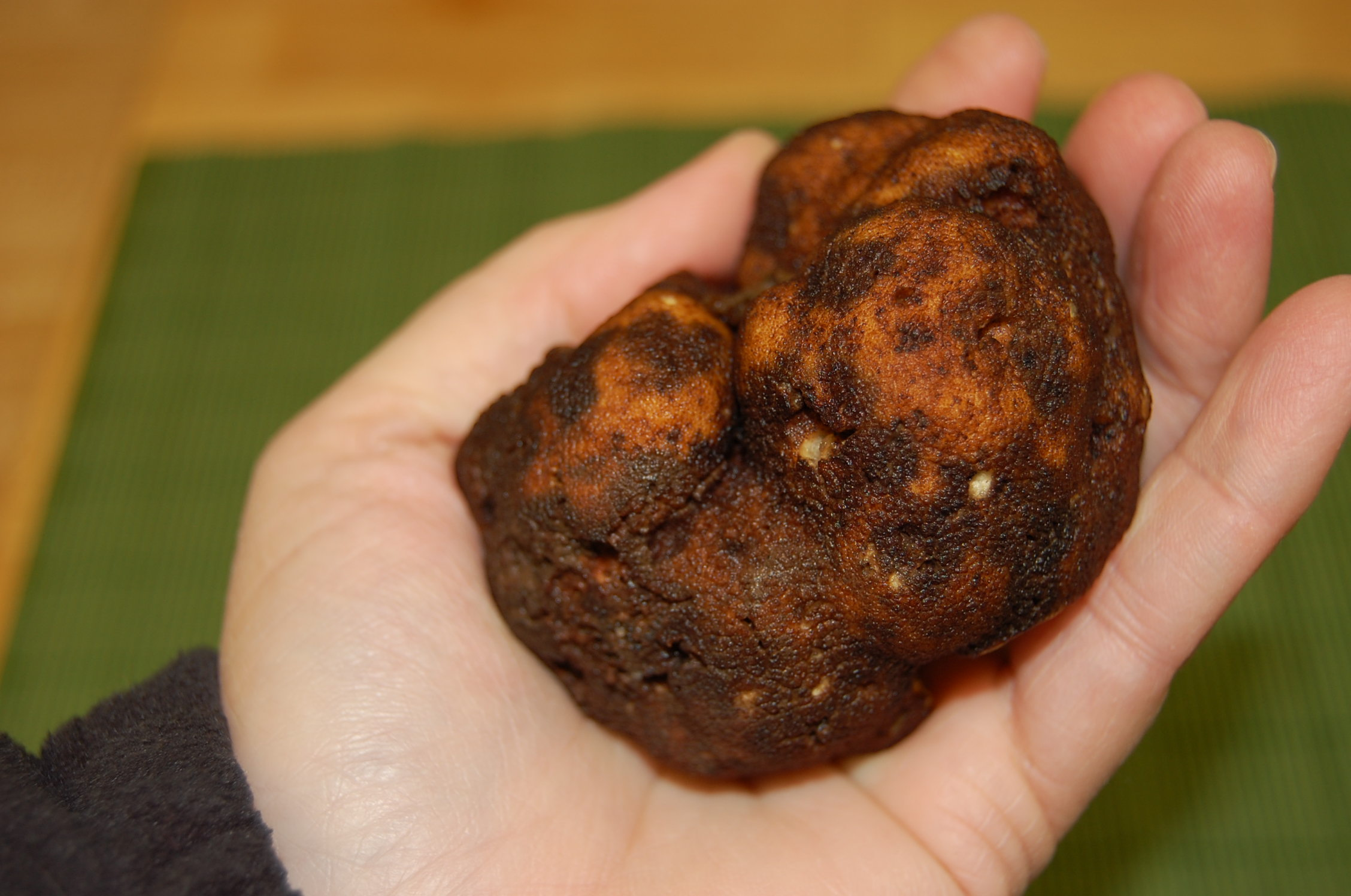 The truffle-like fungus Kalapuya brunnea M.J. Trappe, Trappe & Bonito, commonly known as the "Oregon brown truffle". Found in Cedar Creek, near Foster, Oregon, USA. "Notes: These huge baseball sized Oregon brown truffles smelled like a combination of cauliflower and garlic cheese"